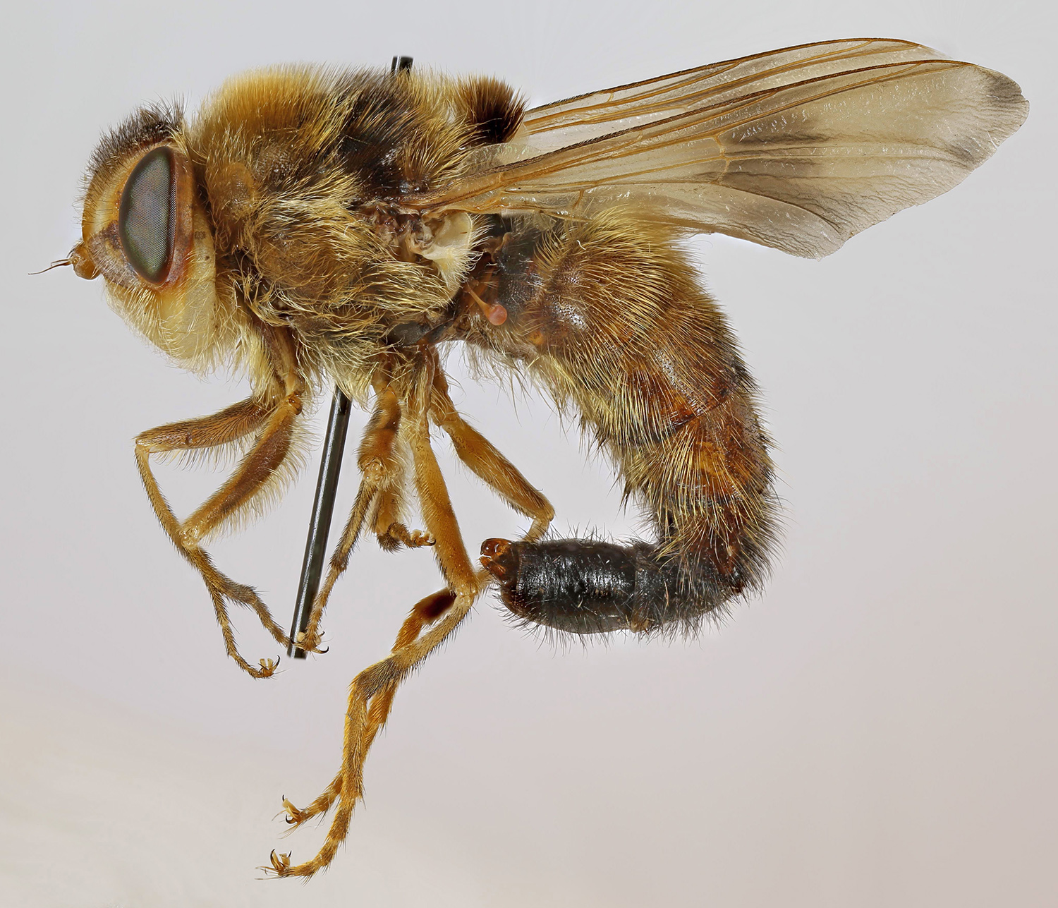 Gasterophilus intestinalis, Trawscoed, North Wales, Aug 2015